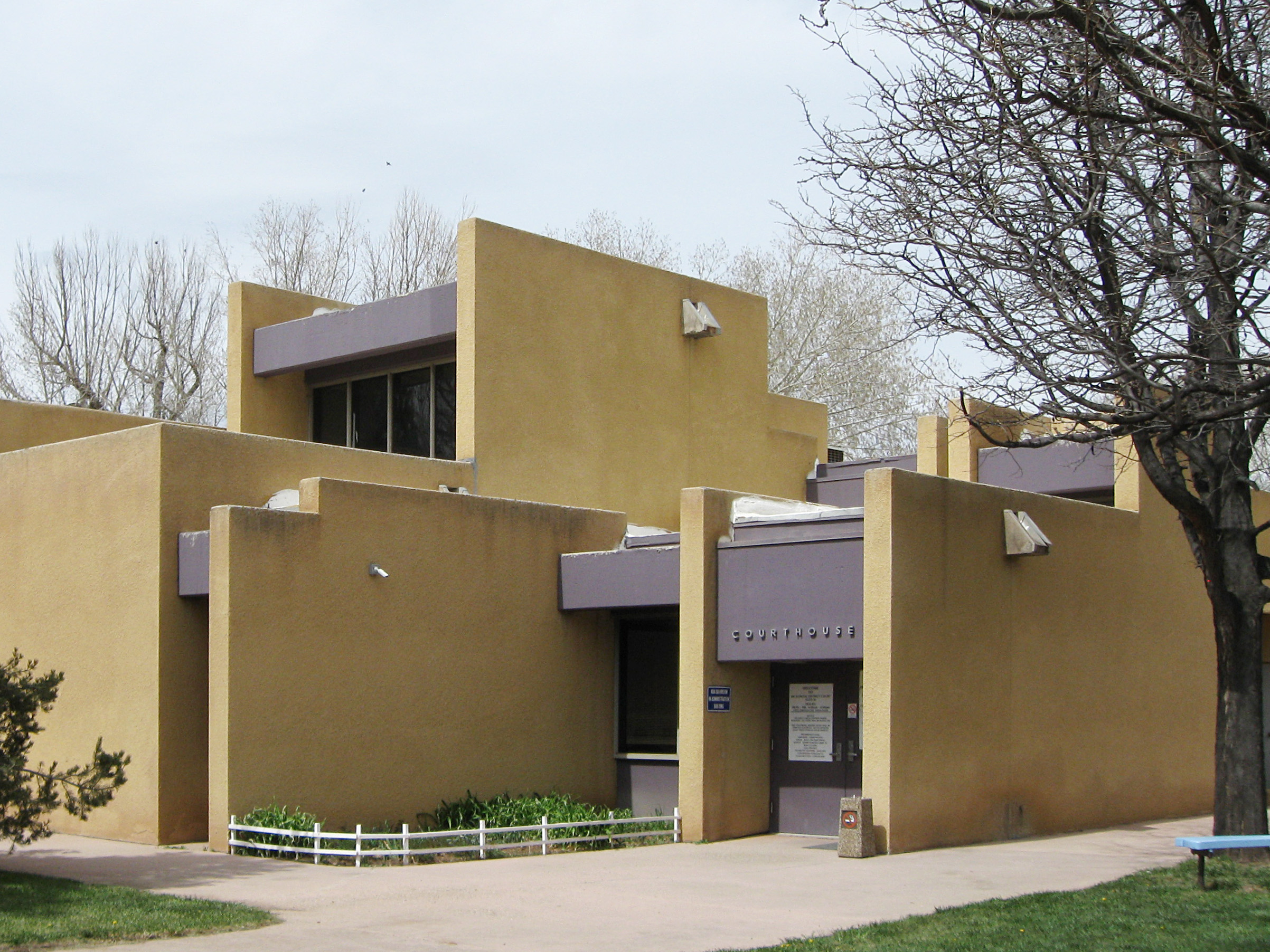 Taos County (New Mexico) Court House, located in the Taos County Courthouse Complex at 105 Albright Street, Taos, New Mexico.